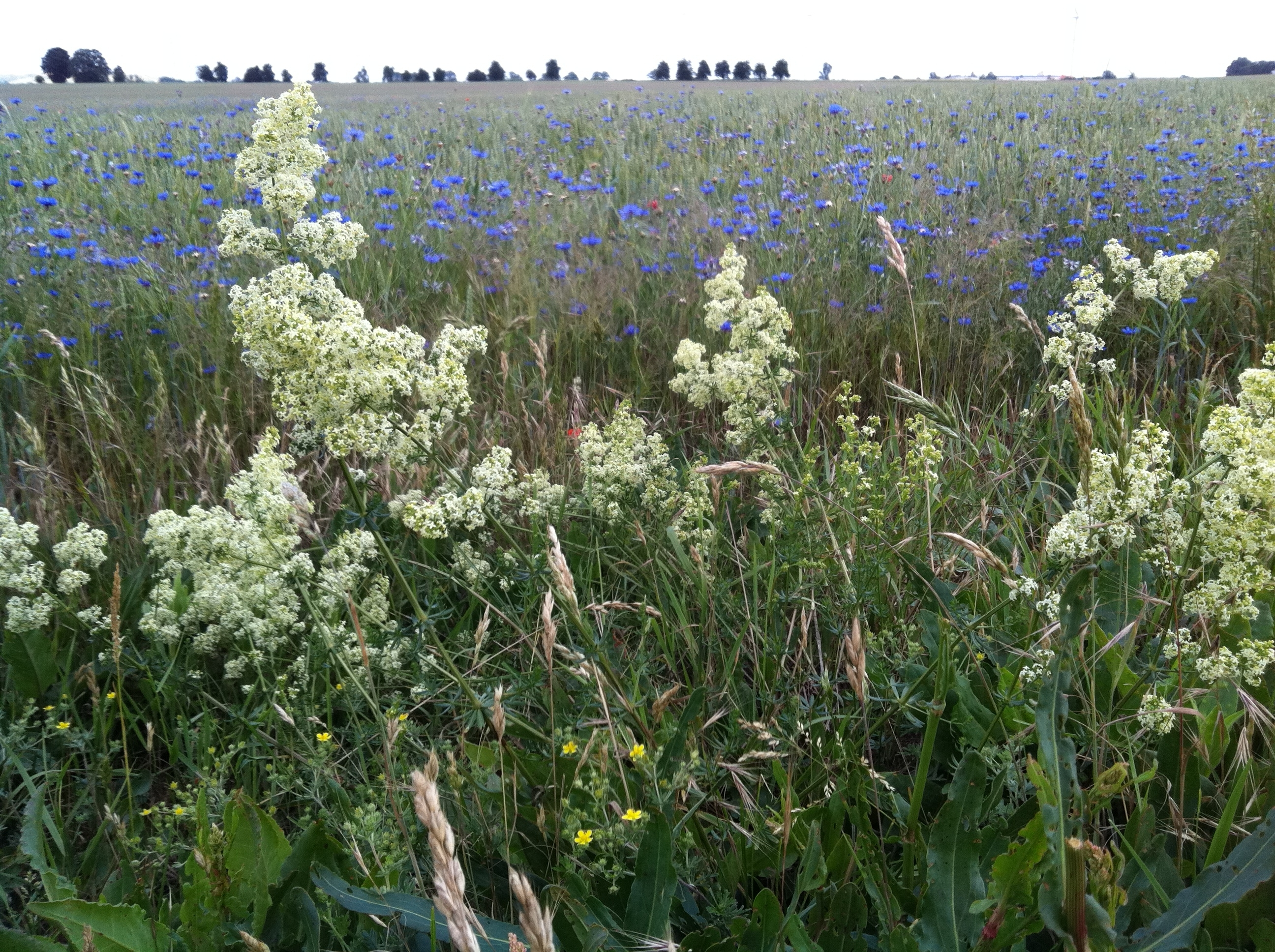 A bush of Galium Album in a field. Cornflowers can be seen in the background.